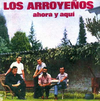 Los Arroyeños. Folk Group. Argentina. 1973. Eugenio Inchausti, Chany Inchausti, Gustavo Santa Coloma, Mario Botto y Luis Maria Bragato.